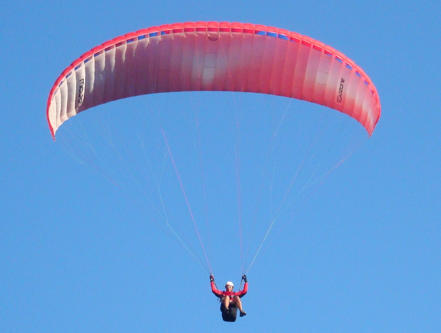 Paraglider Ozone Mojo